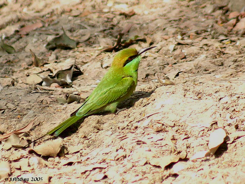 Green Bee-eater Merops orientalis in Kolkata, West Bengal, India.